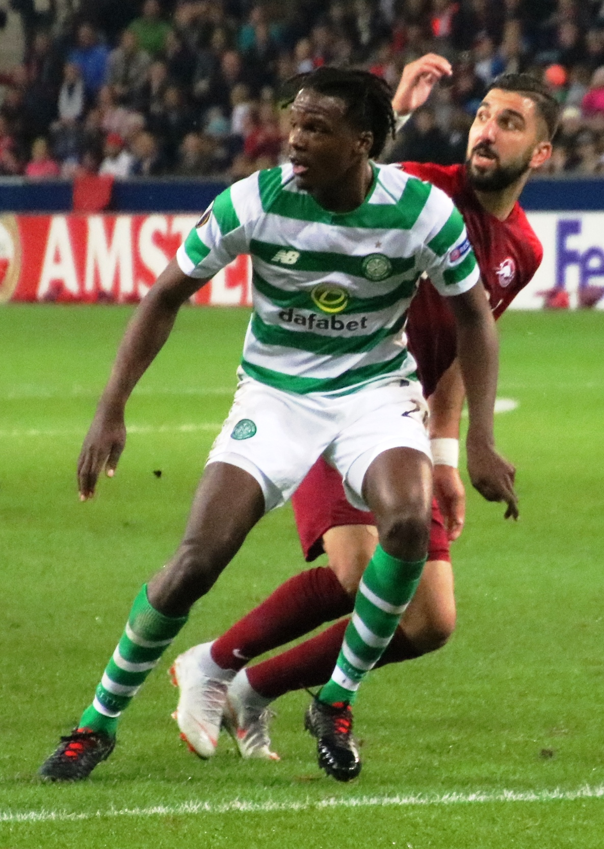 Uefa Euroleague group stage round 2